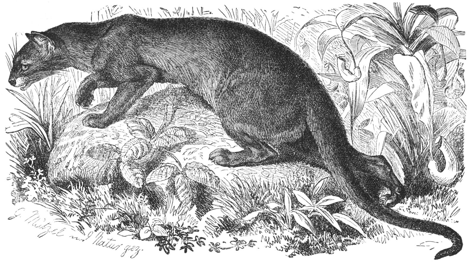 Drawing of a Fossa by illustrator Gustav Mützel (1839–1893) DescriptionGerman animal painterDate of birth/death 7 December 1839 29 October 1893 Location of birth/death Berlin BerlinAuthority control : Q454867 VIAF: 45073627 ISNI: 0000 0000 6318 7096 LCCN: no90007426 NLA: 36027179 GND: 117179612 WorldCat creator QS:P170,Q454867 in Brehms Tierleben. Original caption: "Fossa, Cryptoprocta ferox Benn. 1/8 natürlicher Größe." Translation (partly): "Fossa, Cryptoprocta ferox Benn. 1/8 natural size." Size: 5.3 x 3.0 in² (13.4 x 7.5 cm²)